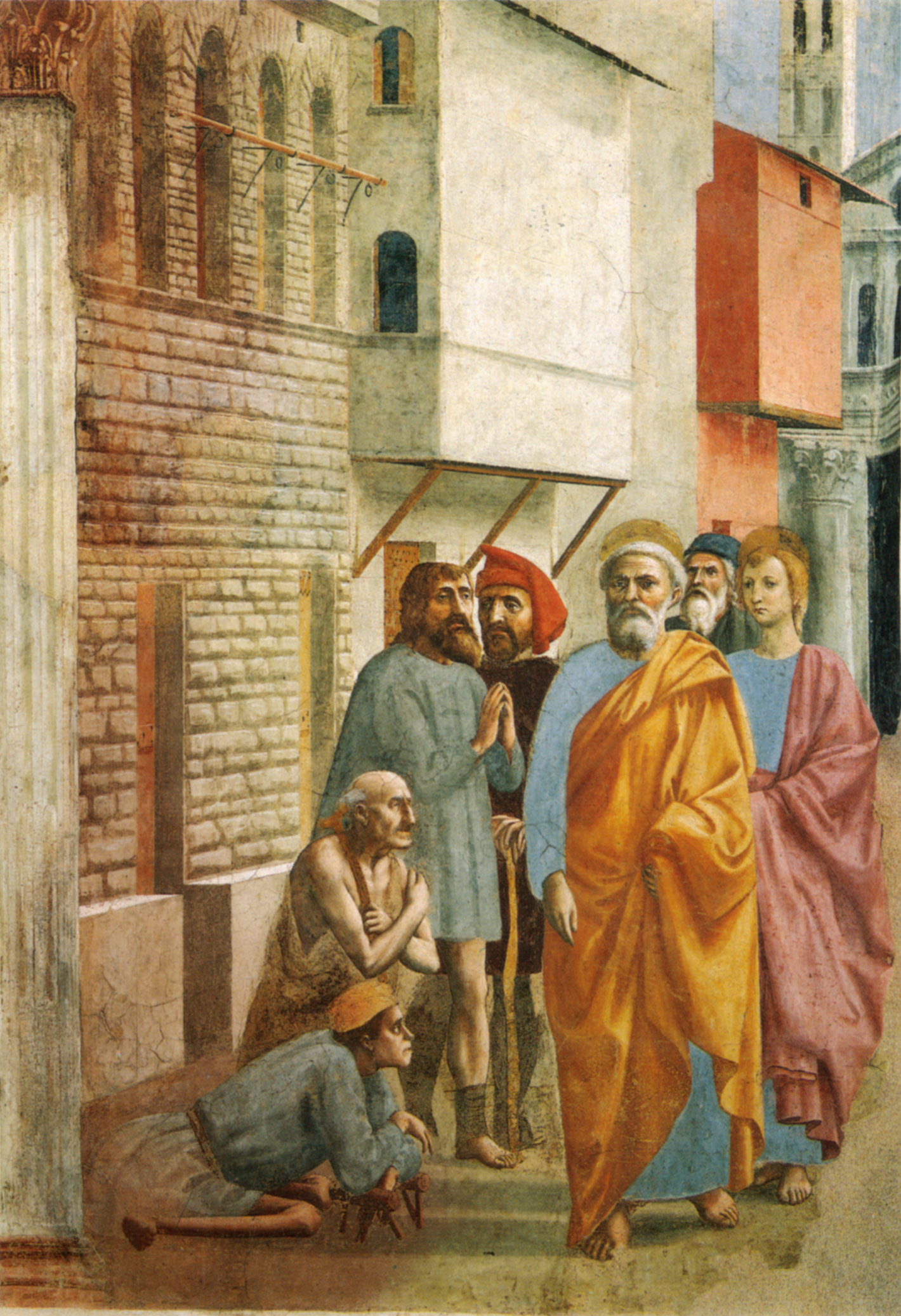 St. Peter Healing the Sick with His Shadow 00.jpg